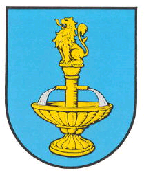 coat of arms of the German village of Alsenborn